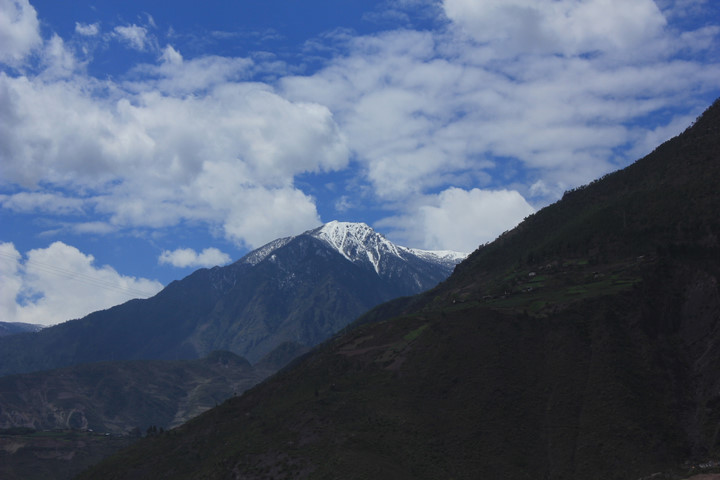 A Mountain in the Biluo Snow Mountain（part of Nu Shan）。Viewed from Huangdeng Hydropower Station，Lanping County，Yunnan province，China。